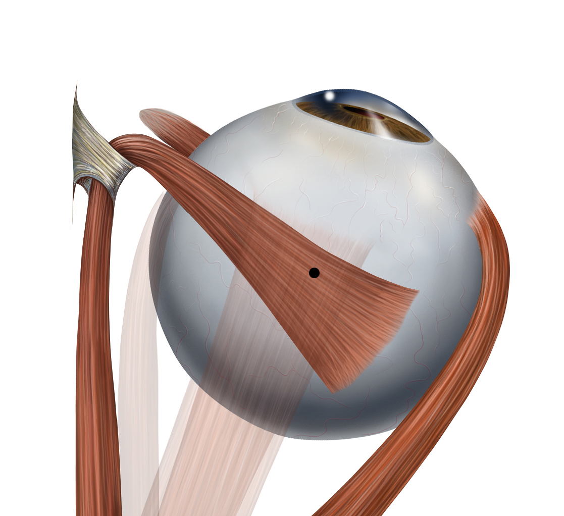 Eye movements abductors